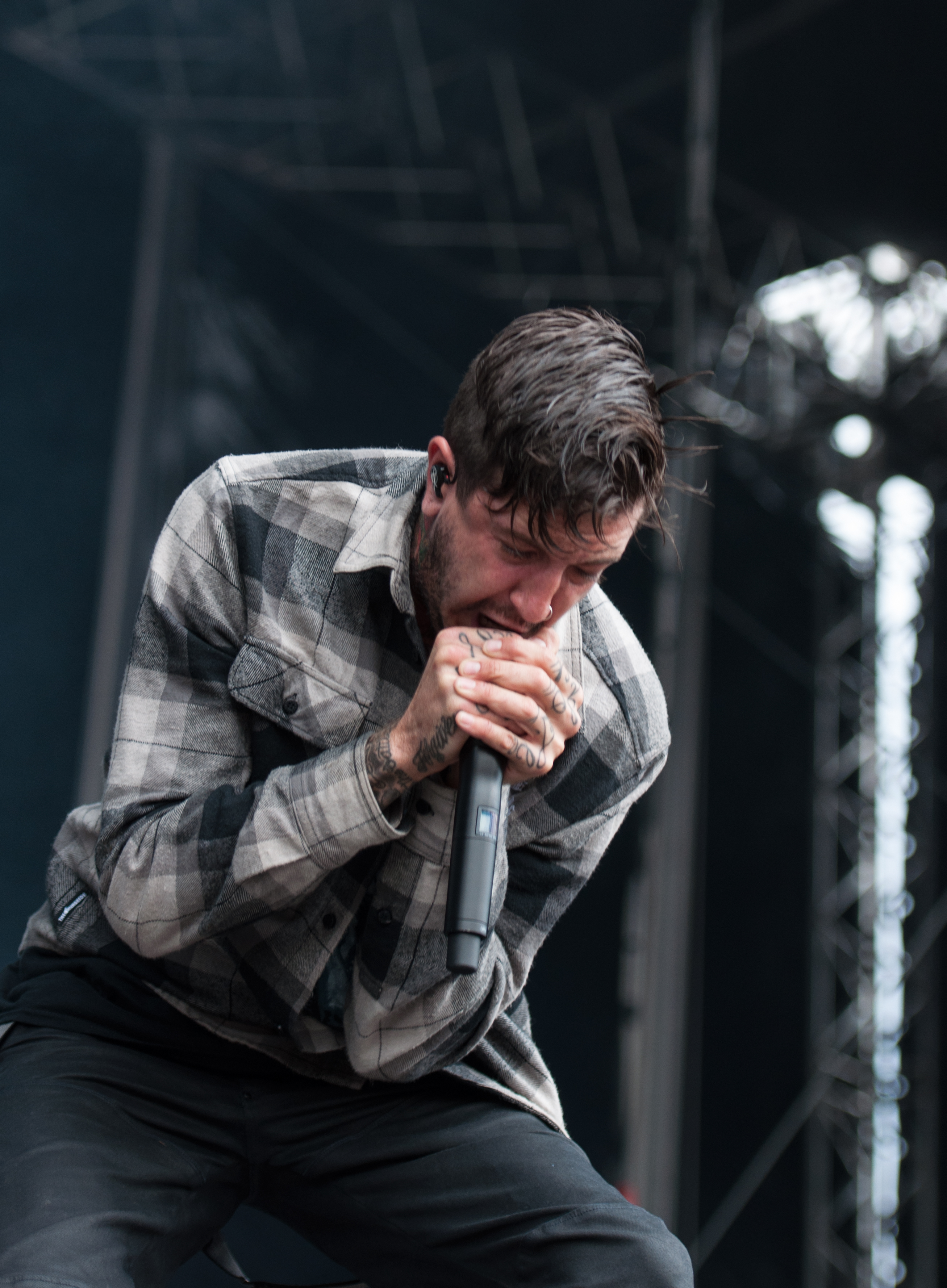 Of Mice & Men at Vainstream Rockfest 2014